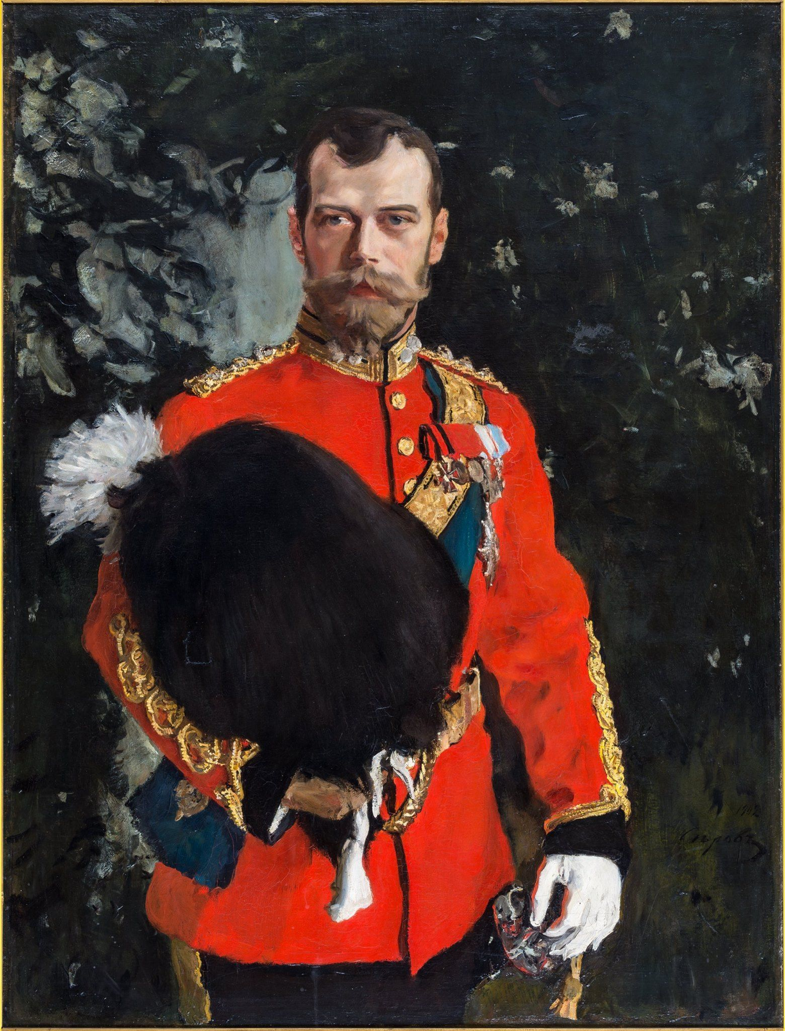 The Emperor is depicted in full dress uniform as Colonel-in-Chief of the 2nd Dragoons (Royal Scots Greys). The last Tsar was the Colonel-in-Chief of the Royal Scots Greys from 1894 until 1918.